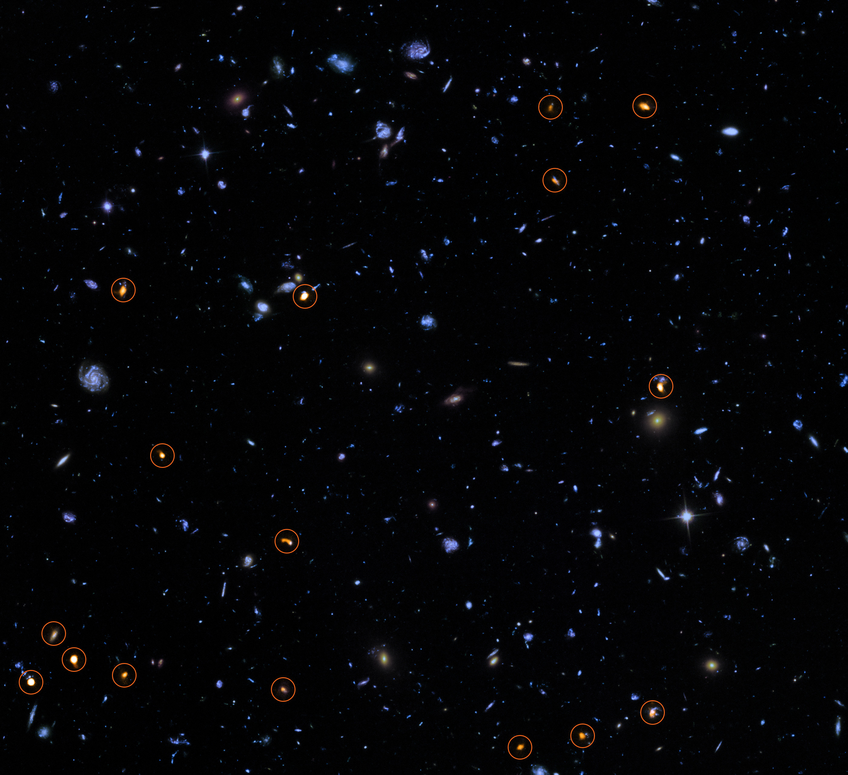 This image combines a background picture taken by the NASA/ESA Hubble Space Telescope (blue/green) with a new very deep ALMA view of this field (orange, marked with circles). All the objects that ALMA sees appear to be massive star-forming galaxies. This image is based on the ALMA survey by J. Dunlop and colleagues, covering the full HUDF area.